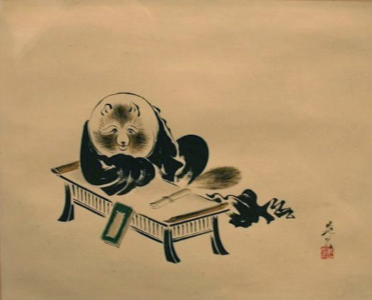 Shibata Zeshin (1807-1891) Badger Studying a Sutra Japan, Edo-Meiji periods, c. 1833-1872 Lacquer on paper Honolulu Museum of Art Gift of The James Edward and Mary Louise O'Brien Collection, 1978 (4650.1) Wikipedia Loves Art at the Honolulu Academy of Arts This photo of item # 4650.1 at the Honolulu Academy of Arts was contributed under the team name "department_of_trife" as part of the Wikipedia Loves Art project in February 2009. Honolulu Academy of Arts The original photograph on Flickr was taken by christopherhu—please add a comment to the original Flickr page whenever a use has been made on Wikipedia or another project. Project galleries on Flickr: this institution, this team Shibata Zeshin (1807-1891) Badger Studying a Sutra Japan, Edo-Meiji periods, c. 1833-1872 Lacquer on paper Honolulu Museum of Art Gift of The James Edward and Mary Louise O'Brien Collection, 1978 (4650.1) Wikipedia Loves Art at the Honolulu Academy of Arts This photo of item # 4650.1 at the Honolulu Academy of Arts was contributed under the team name "department_of_trife" as part of the Wikipedia Loves Art project in February 2009. Honolulu Academy of Arts The original photograph on Flickr was taken by christopherhu—please add a comment to the original Flickr page whenever a use has been made on Wikipedia or another project. Project galleries on Flickr: this institution, this team